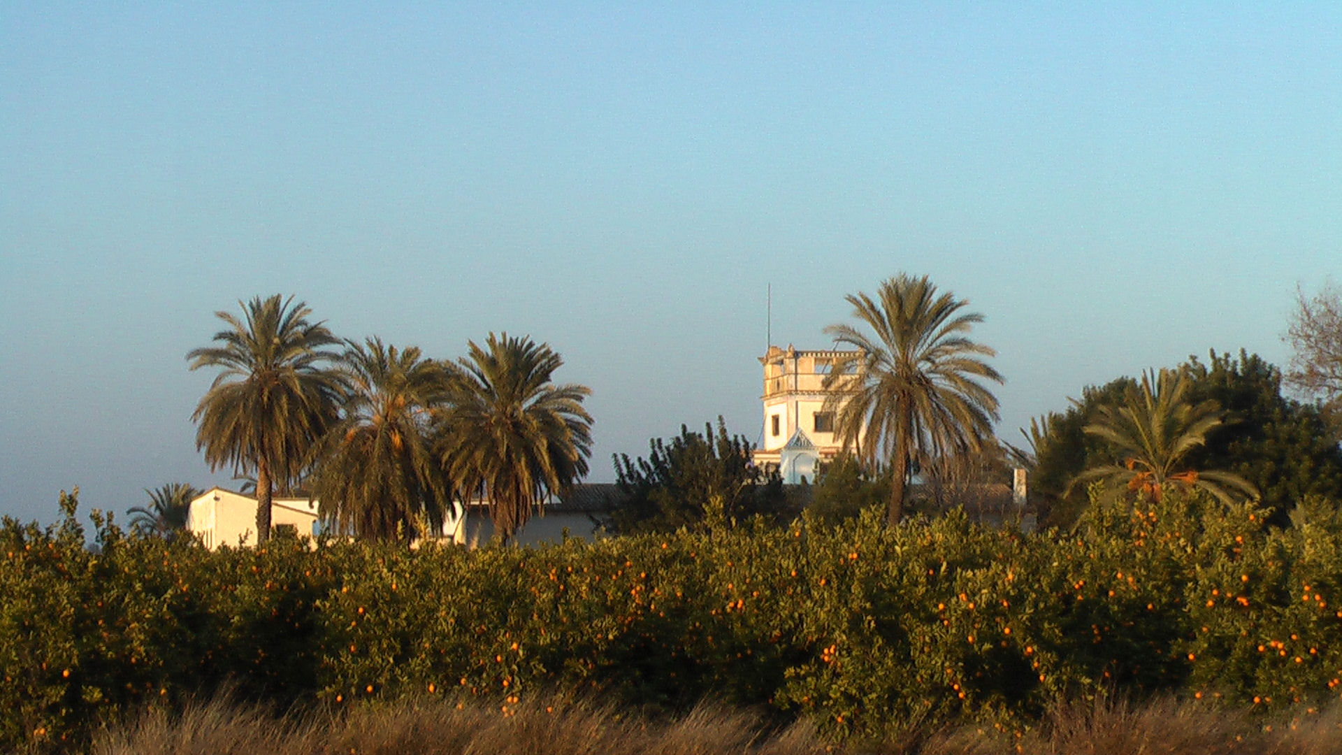 Villa behind orange and date palm trees. Location: Picassent, Valencia, the Valencian Community—"Land of Valencia", eastern Spain.